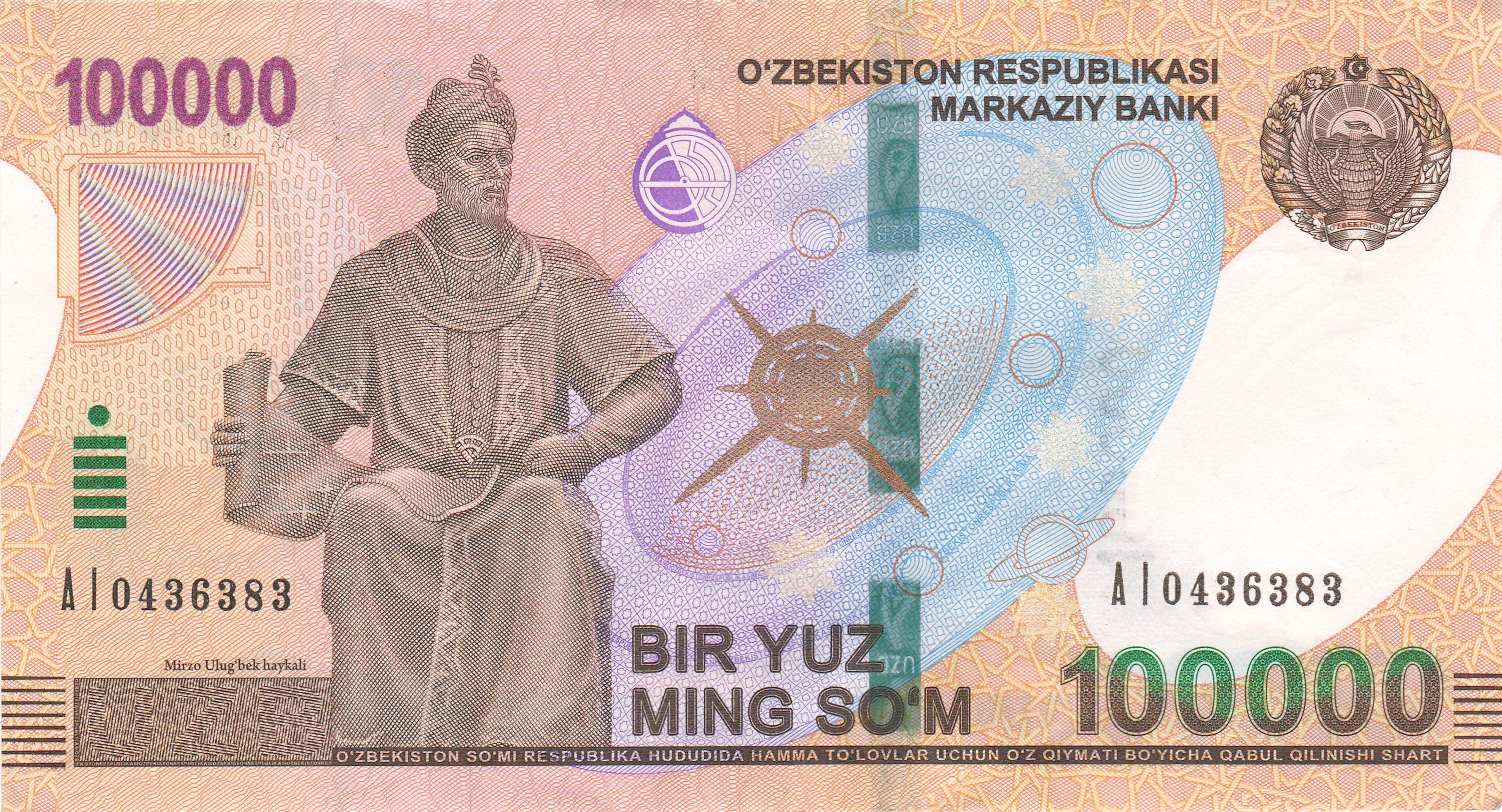 100 000 soms of Uzbekistan (2019)